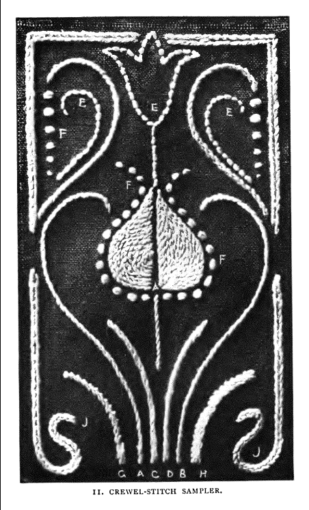 An example of crewel stitch